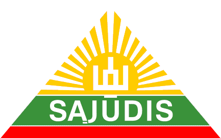 Logo of Lithuanian national mowement Sajudis, designer Giedrius Reimeris